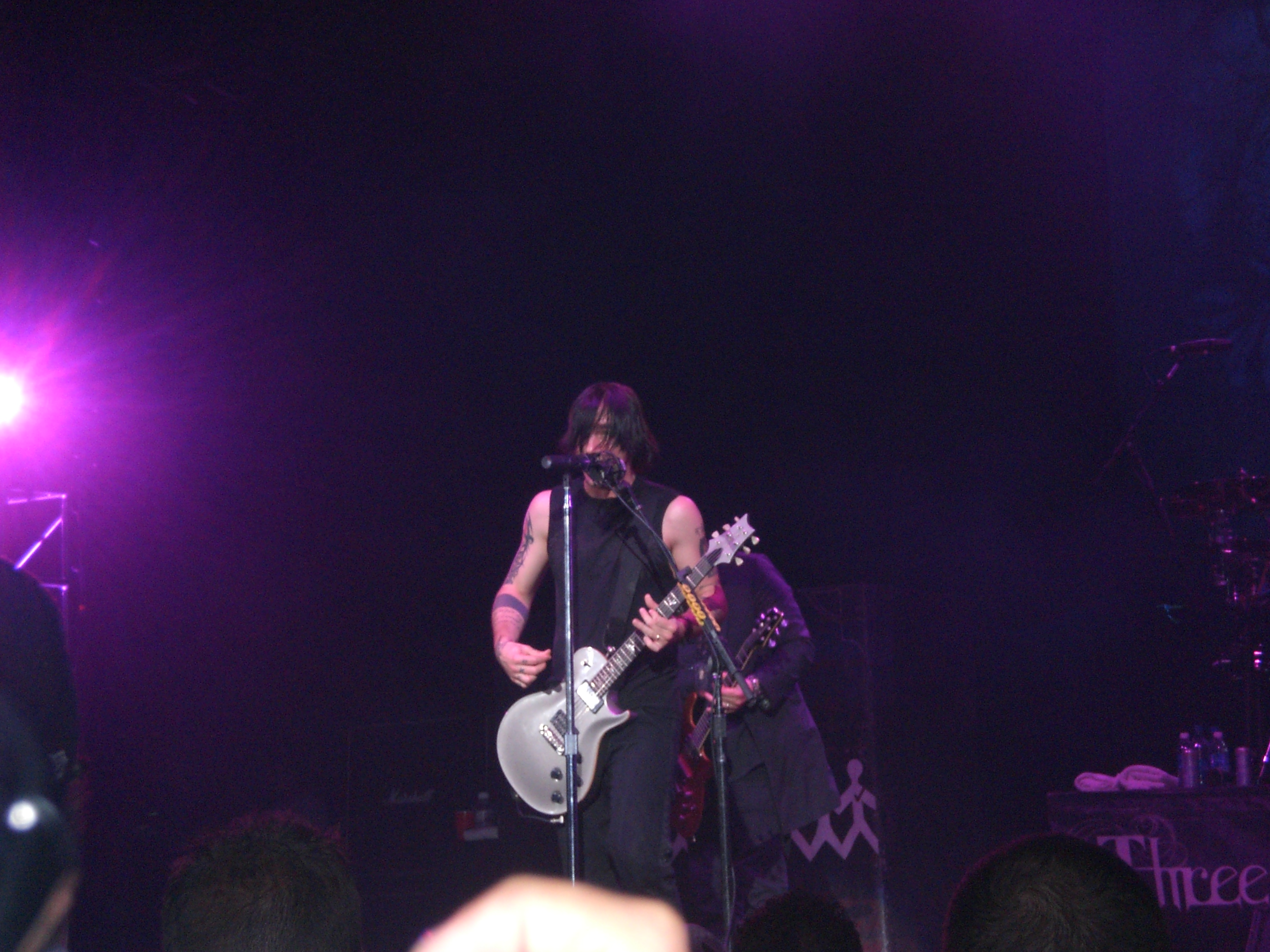 Adam Gontier (Three Days Grace) live at Buzz Bake Sale 2007, 2007-12-01